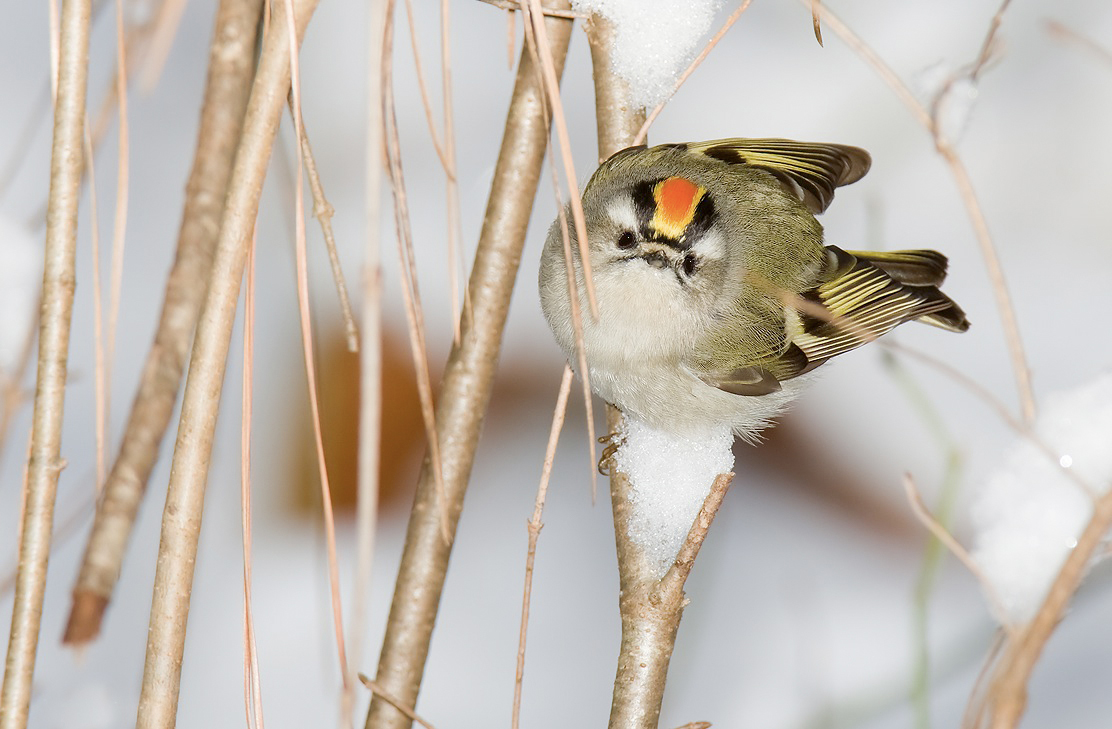 Golden-crowned kinglet on snowy branch